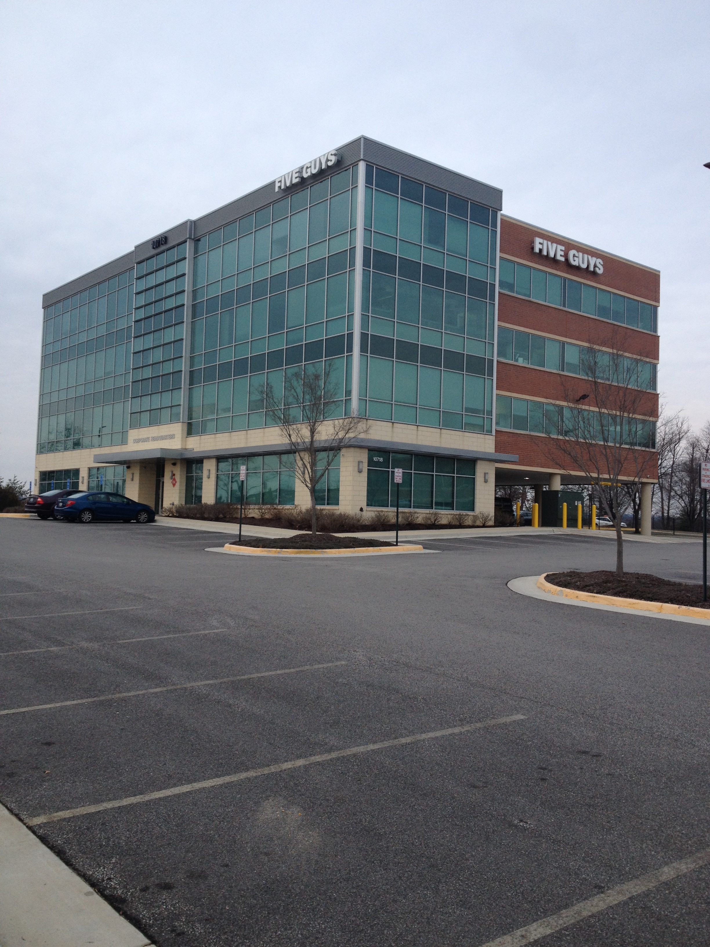 The Five Guys corporate office in Lorton, VA, as viewed from the parking lot